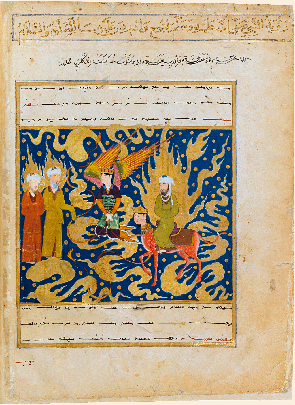 Plate showing the Night Journey (Mi'raj) of the Prophet Muhammad on the mythical steed Buraq with the archangel Gabriel and two Prophets, Noah and Idris, in the Second Heaven. One of 60 miniatures in Mir Haydar, Mira‘j-nameh, Timurid illuminated manuscript from Herat in Afghanistan showing other episodes in the Journey; The texts are in three languages: Turkish in Uigher script (main text), also Arabic titles and Persian and Arabic captions. Bibliothèque Nationale de France, [1]